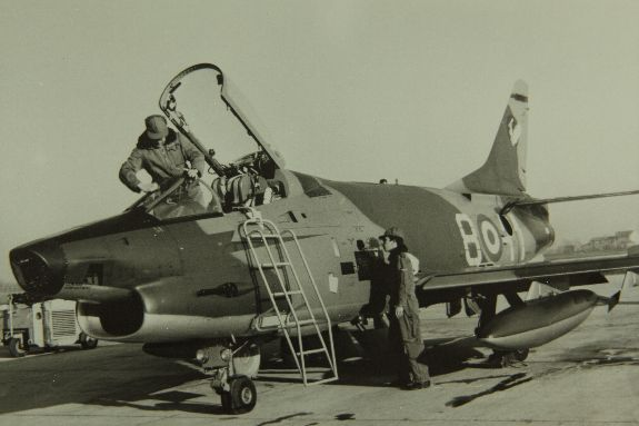 Fiat G-91Y